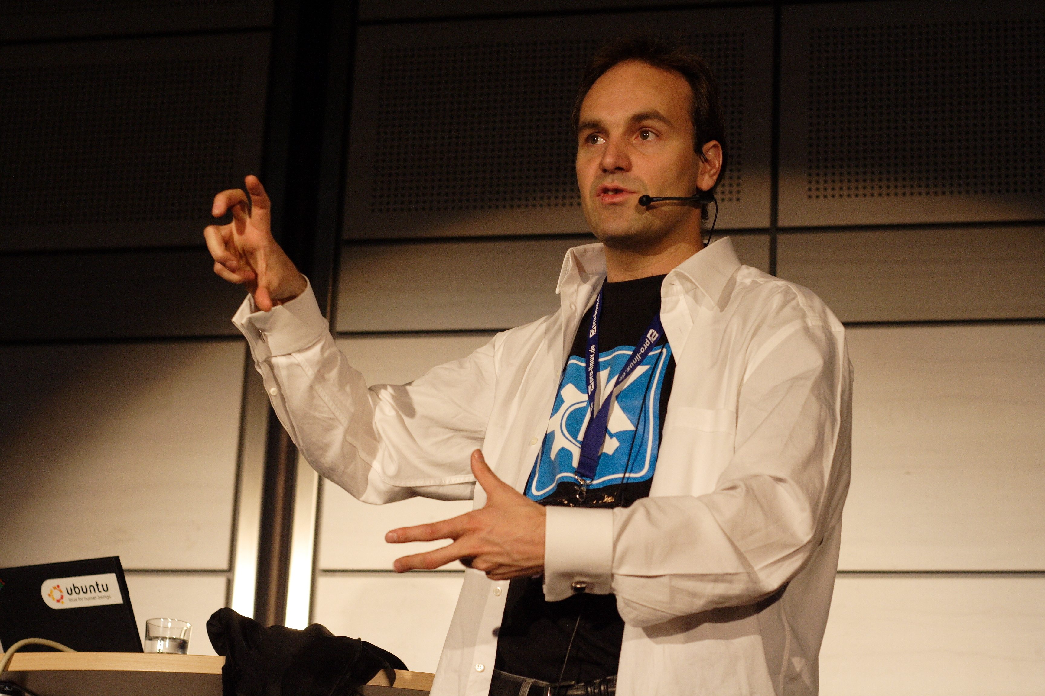 Mark Shuttleworth delivering his keynote at Linuxtag 2006 in Wiesbaden, Germany